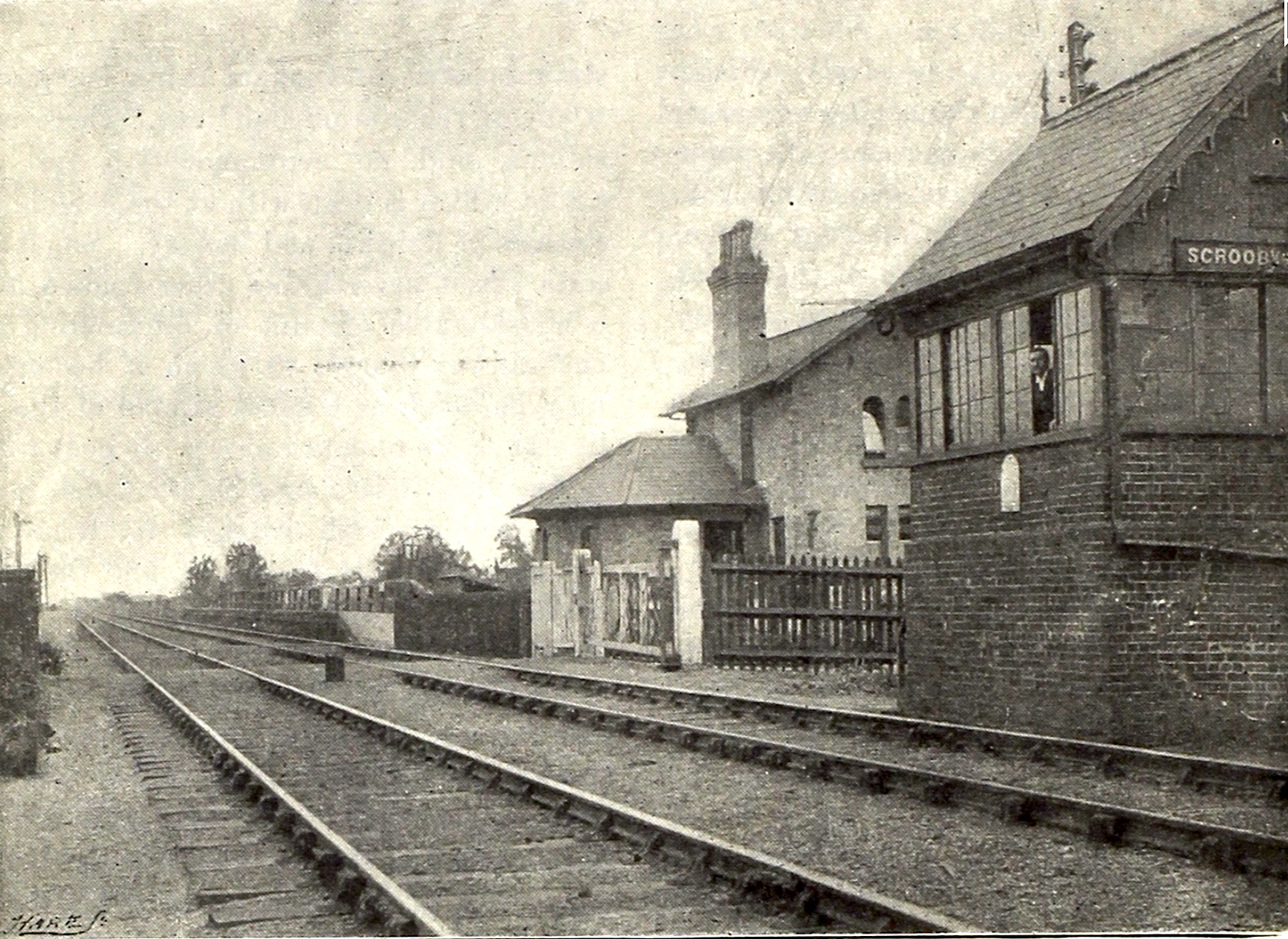 station and signalbox